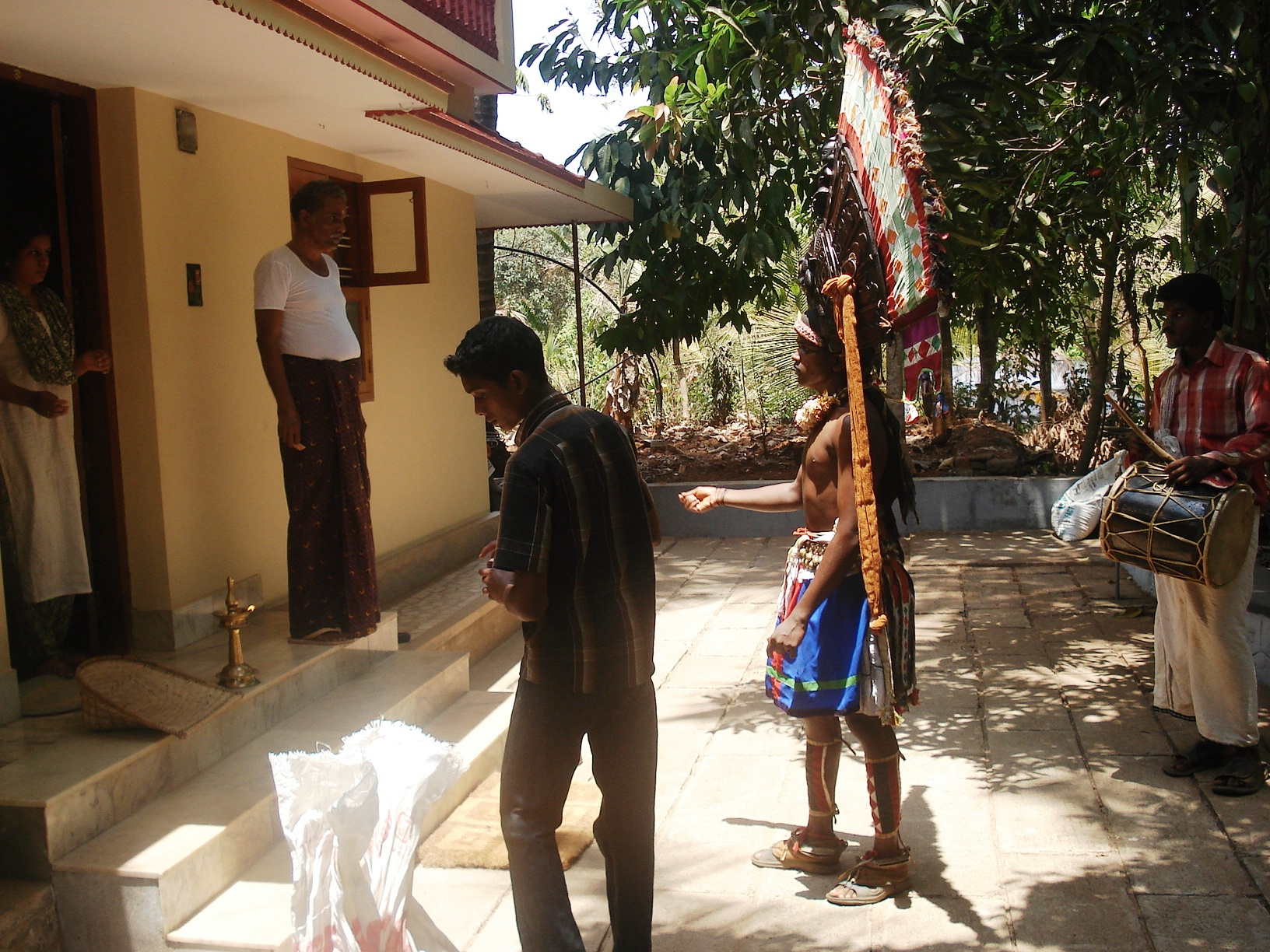 Thara visiting houses to bless them during Chirankara Pooram